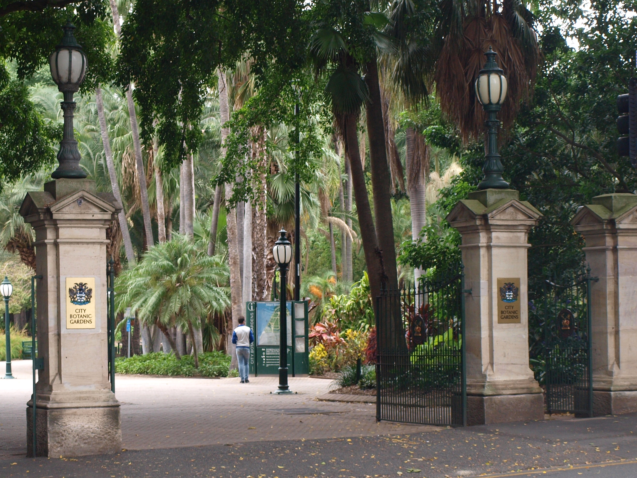 City Botanic Gardens, Brisbane